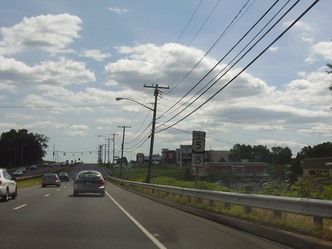 Southbound Berlin Turnpike near the Newington-Berlin line